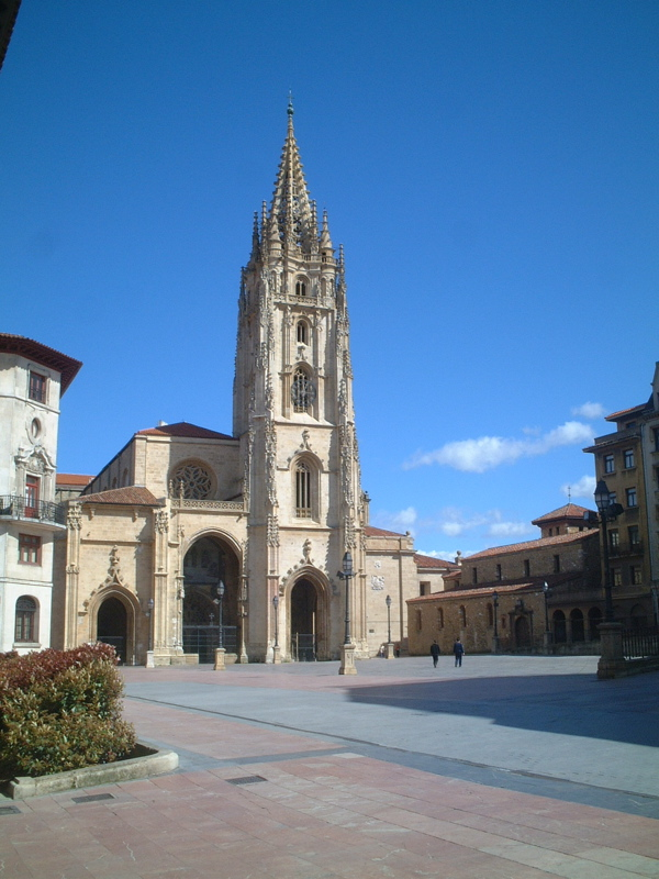 Source: Damian Bohle (Oviedo, Spain, 2005)